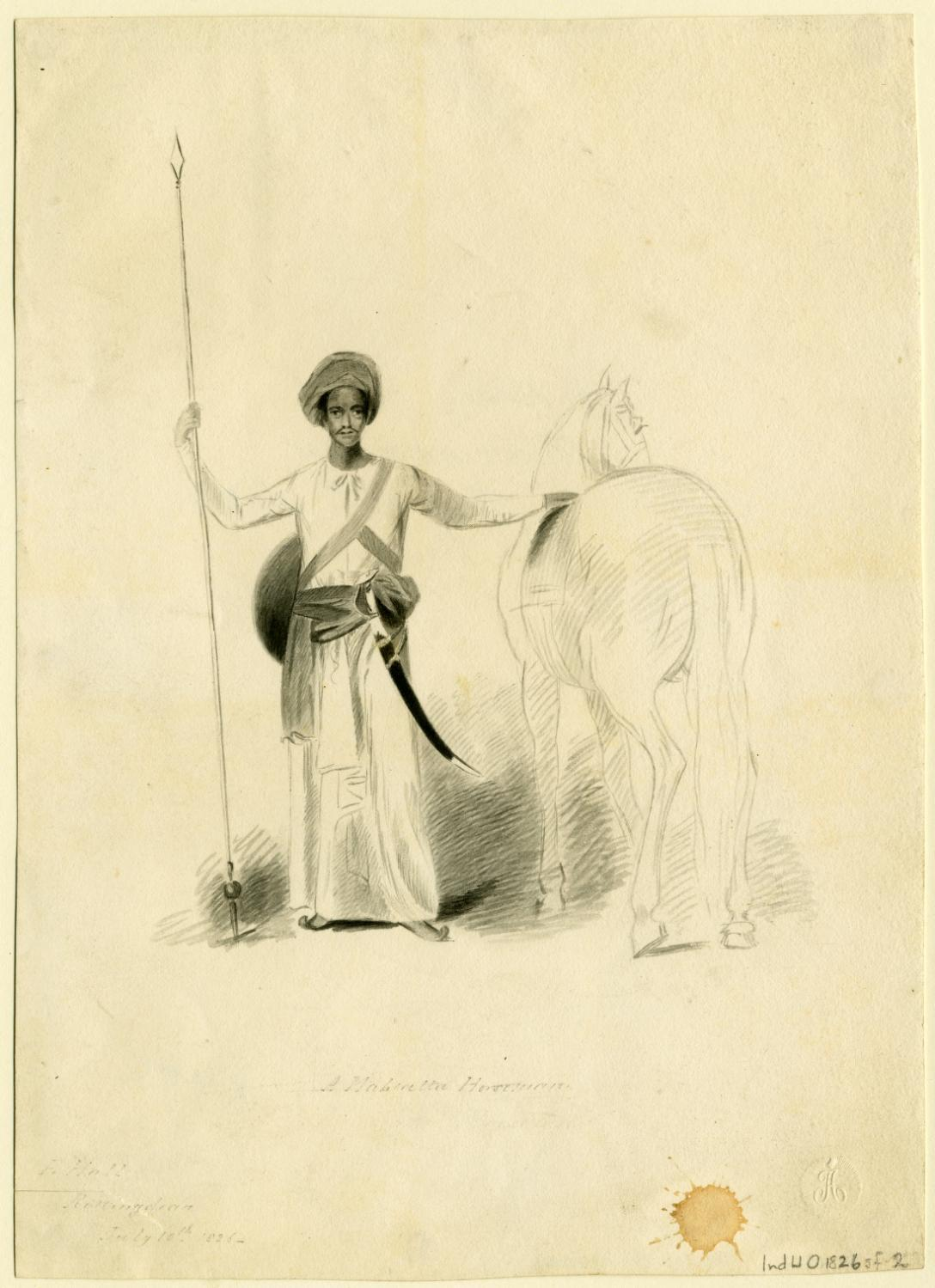 Publication/Creation: Rottingdean: 1826 Creators and Contributors: Hall, H. (artist) Description: Physical Description: 1 sketch; 25.0 x 18.1 cm. reformatted digital Abstract: Original penceil sketch signed and dated by Hall; standing figure in military costume with spear, left hand resting on horse. Call Number: IndUO1826sf-2 (ASK Brown Call No.) General notes: Upright 4to; margins; spot in lower margin. Other notes: N.Y., Rockman, '59. Cd. Provenance: N.Y., Rockman, '59. Cd.